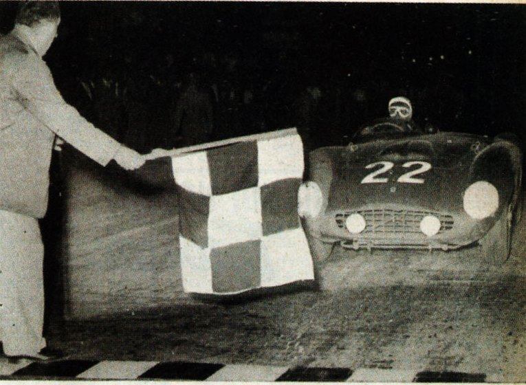 The race director Renzo Castagneto, flies the chess flag to the winner Phil Hill on Ferrari of the 1956 10 Hours of Messina. In particulare, this was the 1956 Ferrari 625 LM s/n 0642MDTR and date was 25–26 August 1956.